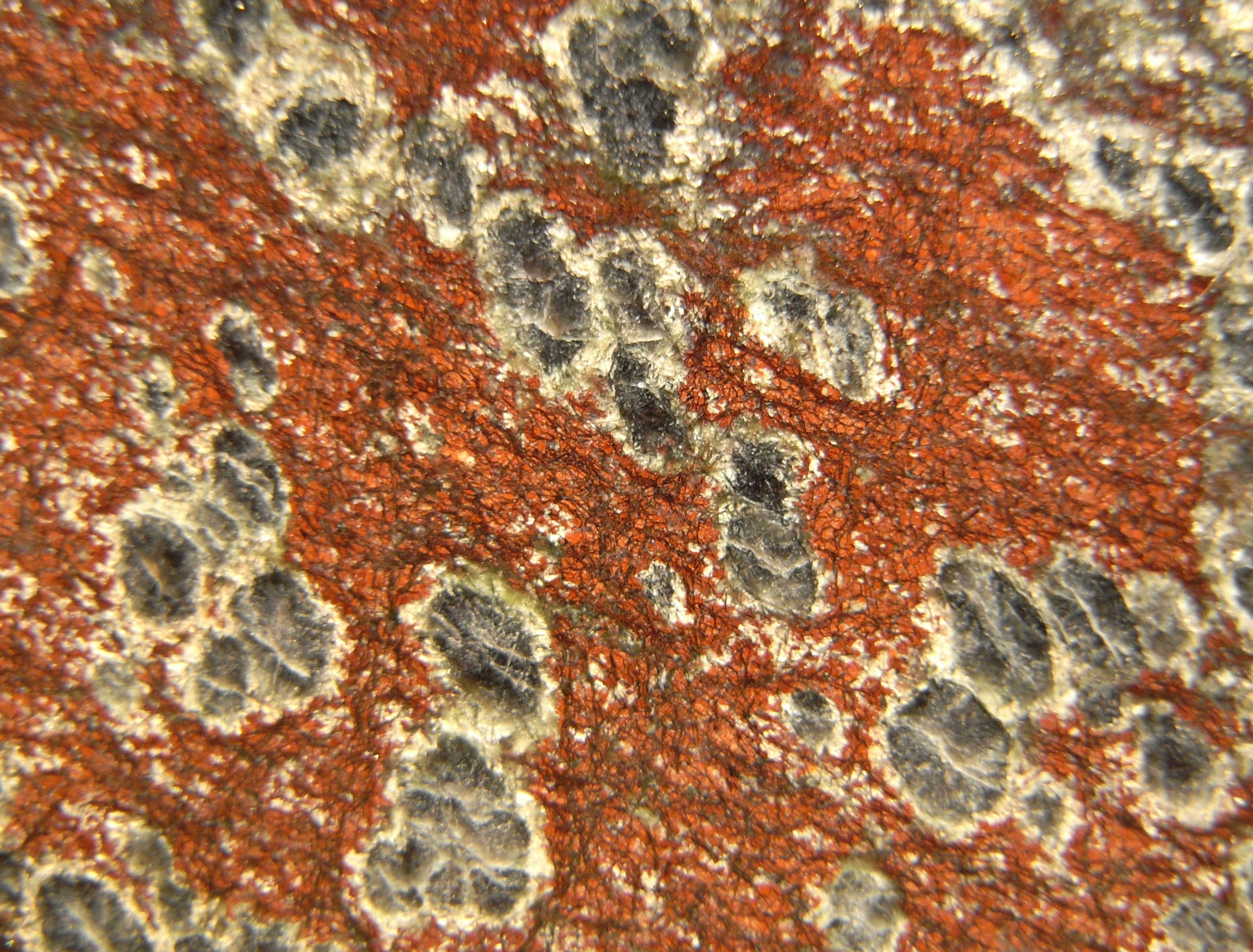 kelyphitic garnet cristalls of Zoeblitz Serpentinite (Saxony, Germany)